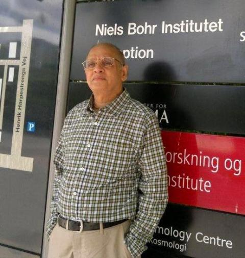 Prof. Ravi Gomatam standing in front of Neils Bohr Institute